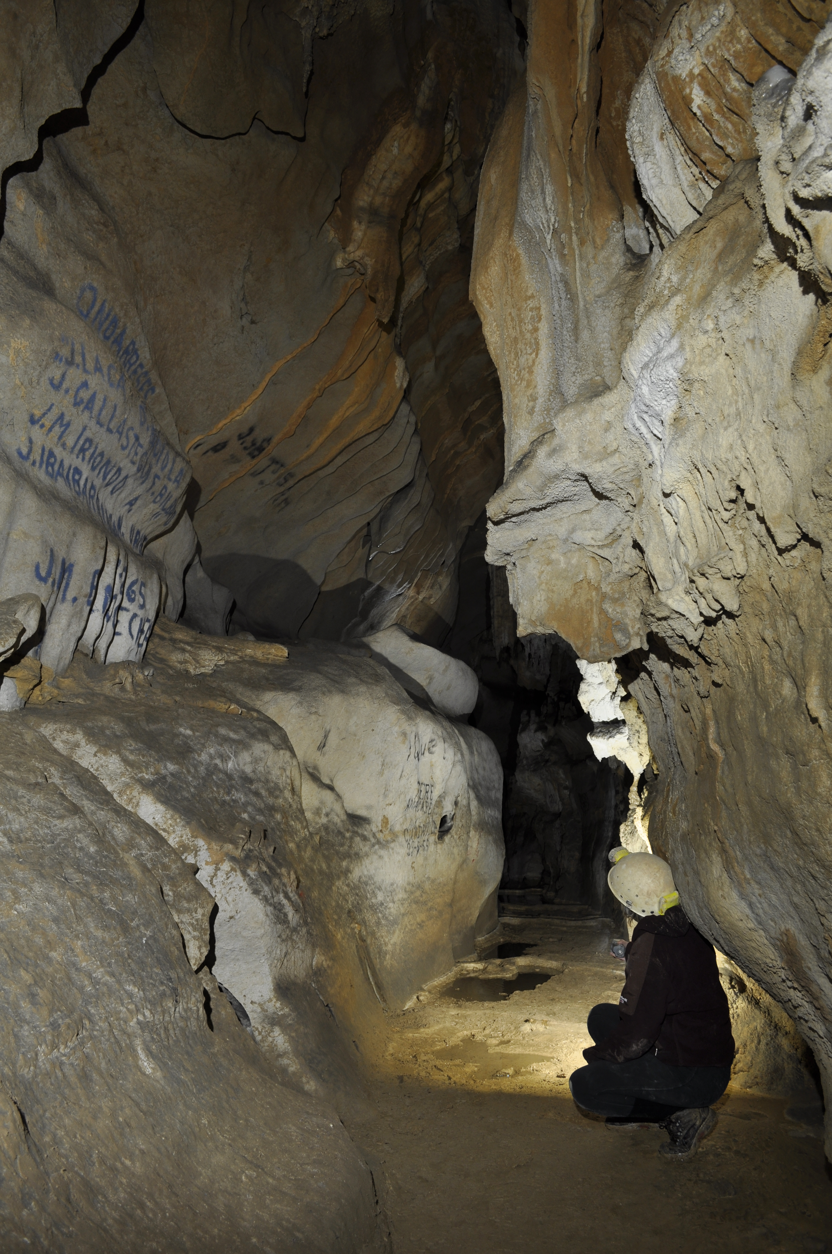 Atxurra, "Horses' Cornice". Graffiti next to the gravures.